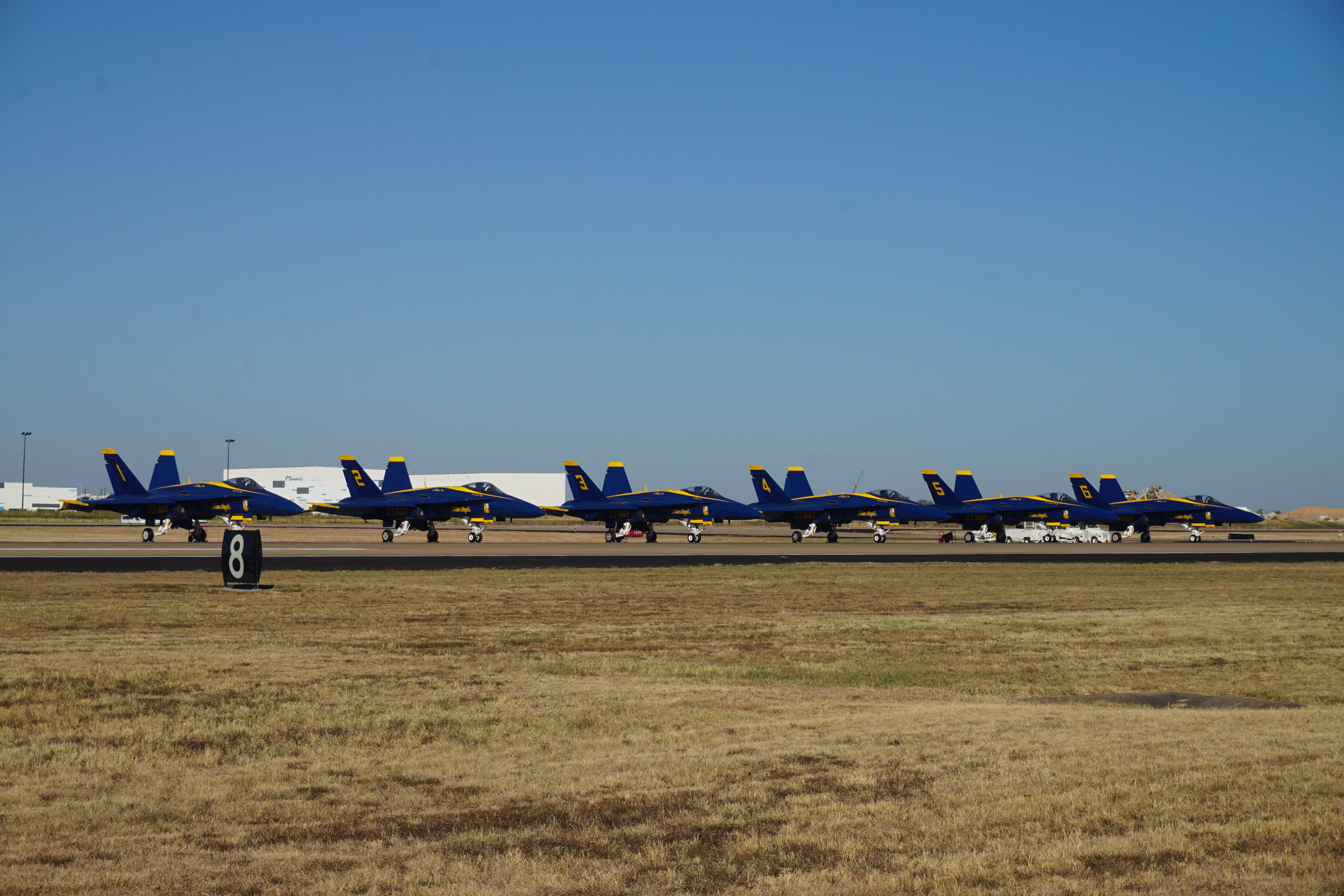 The Blue Angels at the 2019 Fort Worth Alliance Air Show at Fort Worth Alliance Airport in Fort Worth, Texas (United States).